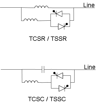 Examples of FACTS for series compensation (schematic)